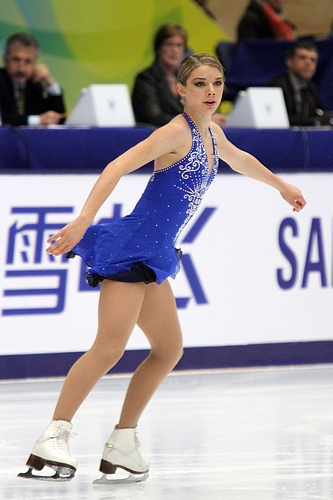 Amanda Dobbs at the Cup of China 2010.